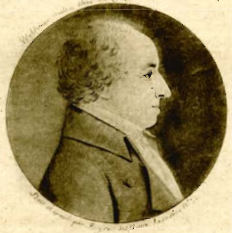 Portrait of Michel Woldemar, from parts of his Quatuor Dialogué.